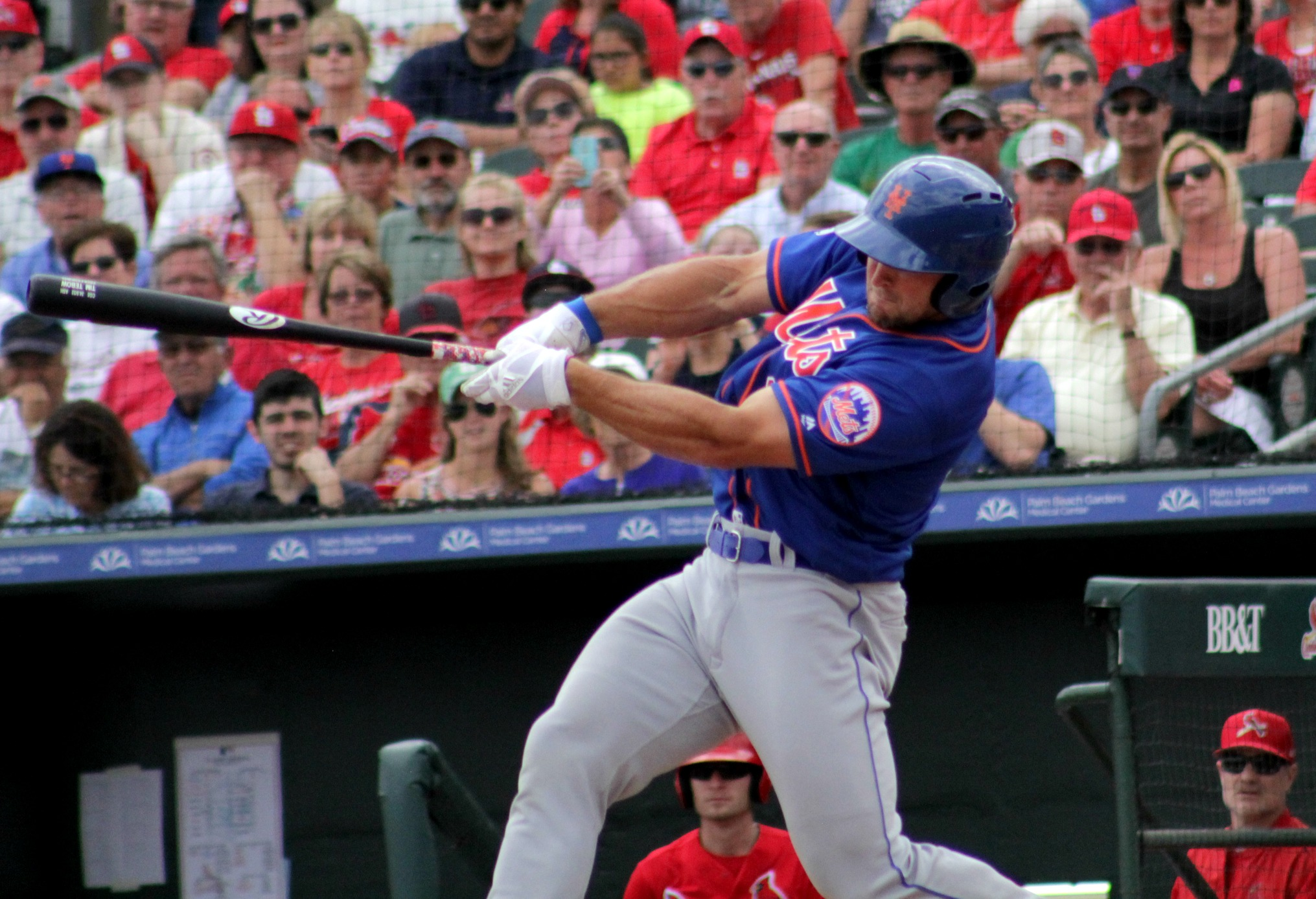 Tim Tebow at bat for the Mets during the Mets v. Cardinals game, Spring Training, 2017.